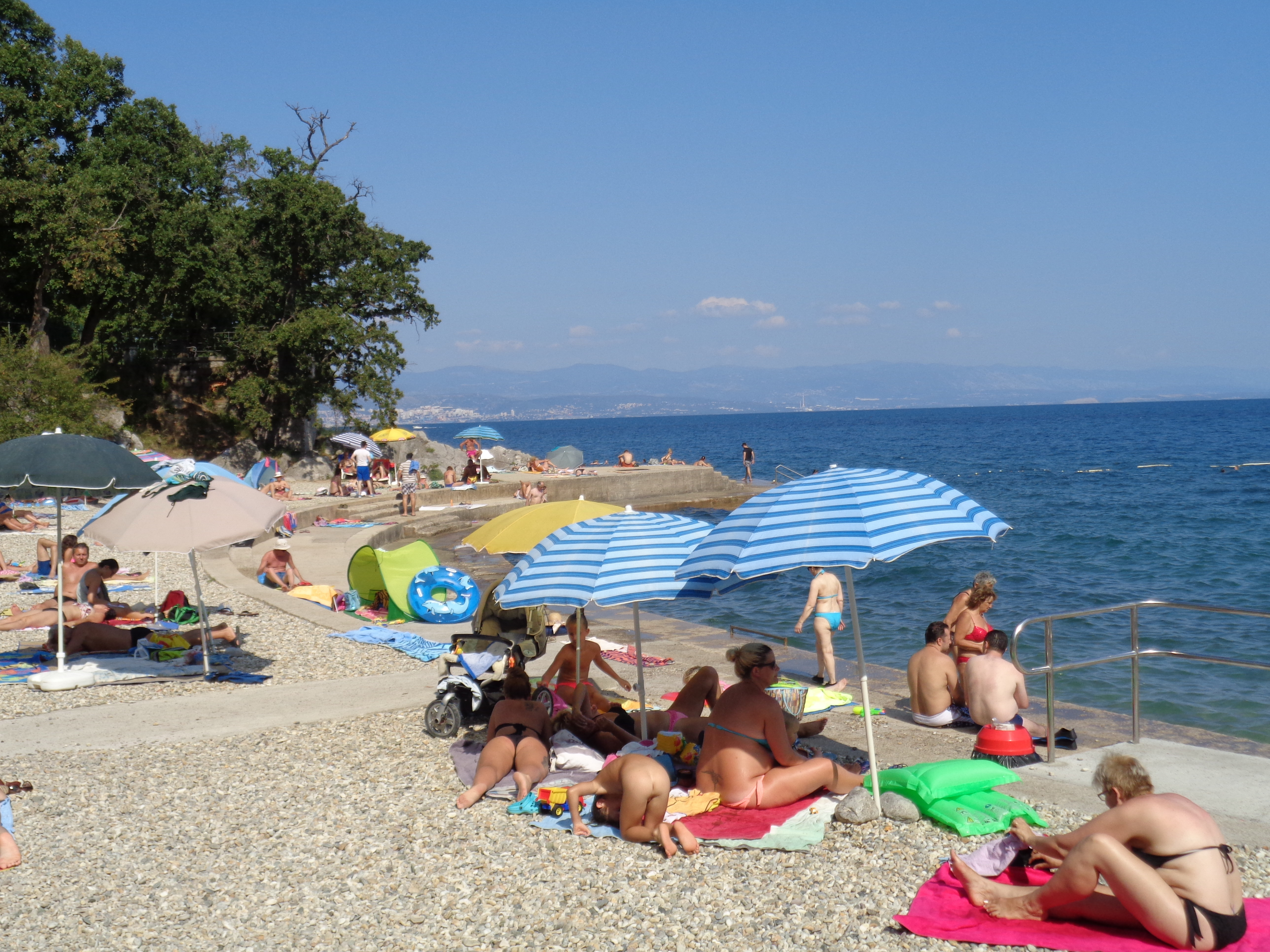 Lovran, Primorje-Gorski Kotar County, Croatia - beach (north view)